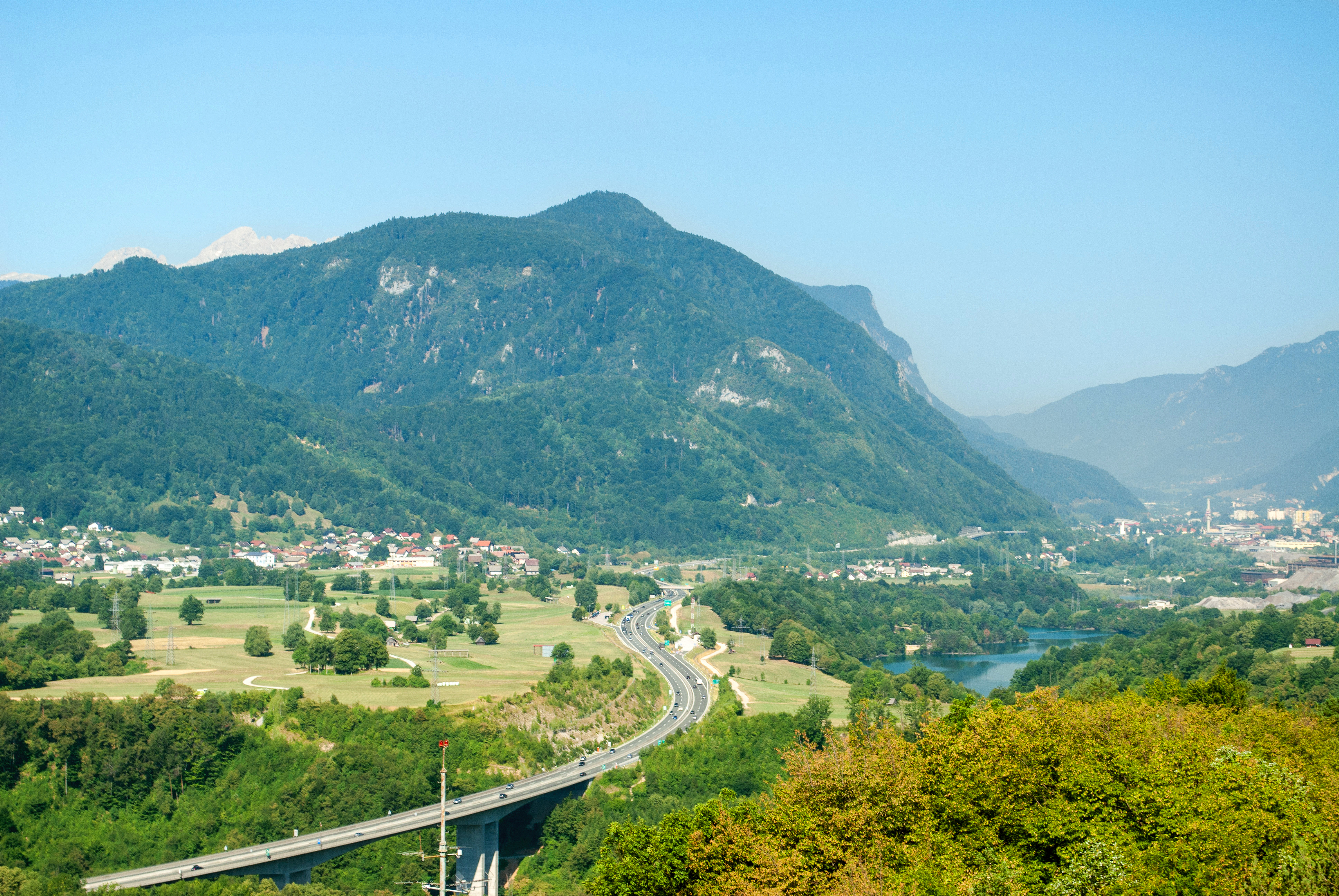 Section of Highway A2 near Jesenice (Viaduct Moste)